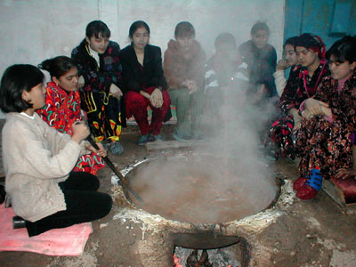 Sumalyak preparation in Uzbekistan.